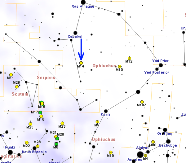 Map of M14